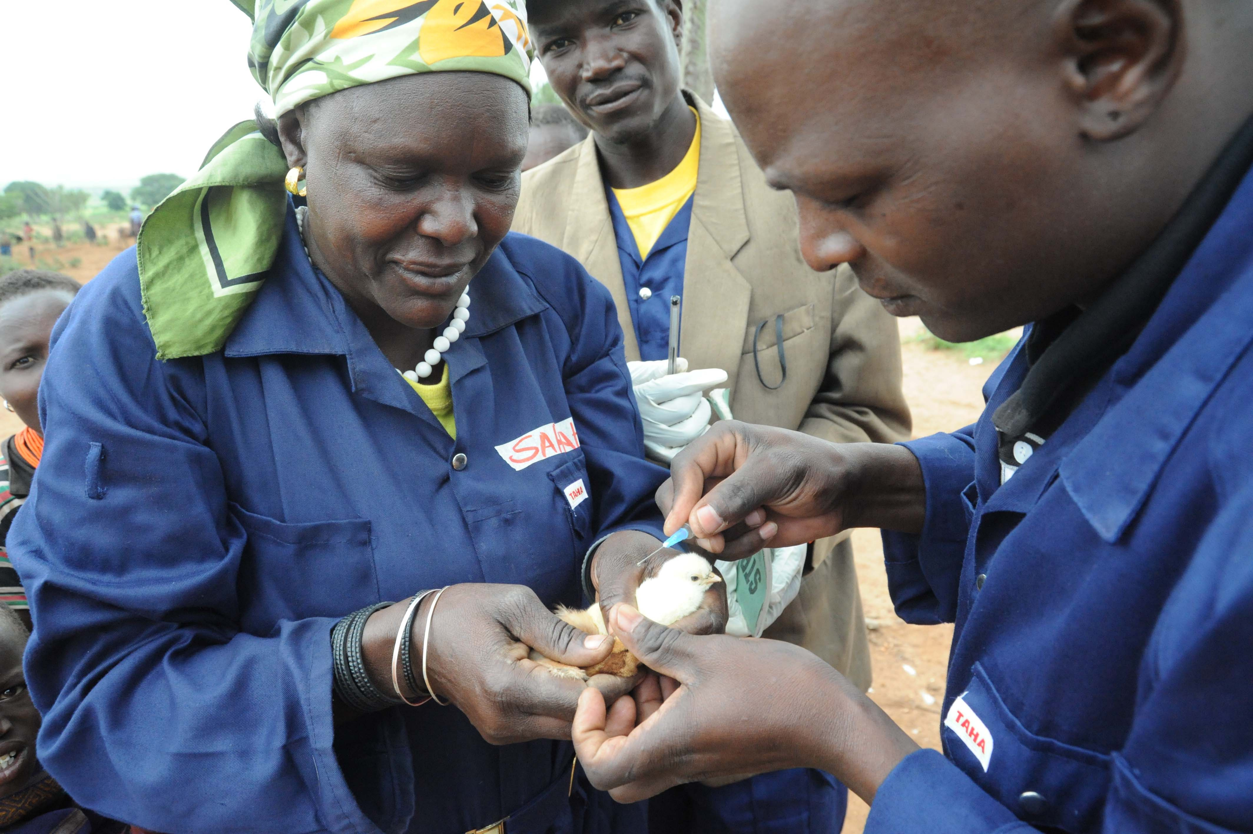 KAABONG, Uganda (Sep 6 2011) - Lokoru Sarah, a Kaabong community animal health worker, assists Longole Simon Peter with the vaccination of a baby chicken near Kaabong, Uganda, September 6. Thirty community animal health workers participated in a two-week veterinary civil action program sponsored by the Uganda People's Defense Force, the Uganda Ministry for Livestock, Agriculture and Fisheries, and Combined Joint Task Force - Horn of Africa. More than 29,500 animals were treated during the VETCAP, including cows, sheep, goats, chickens, donkeys, dogs and cats. (U.S. Air Force photo by Senior Airman Kaitlyn Johnson)